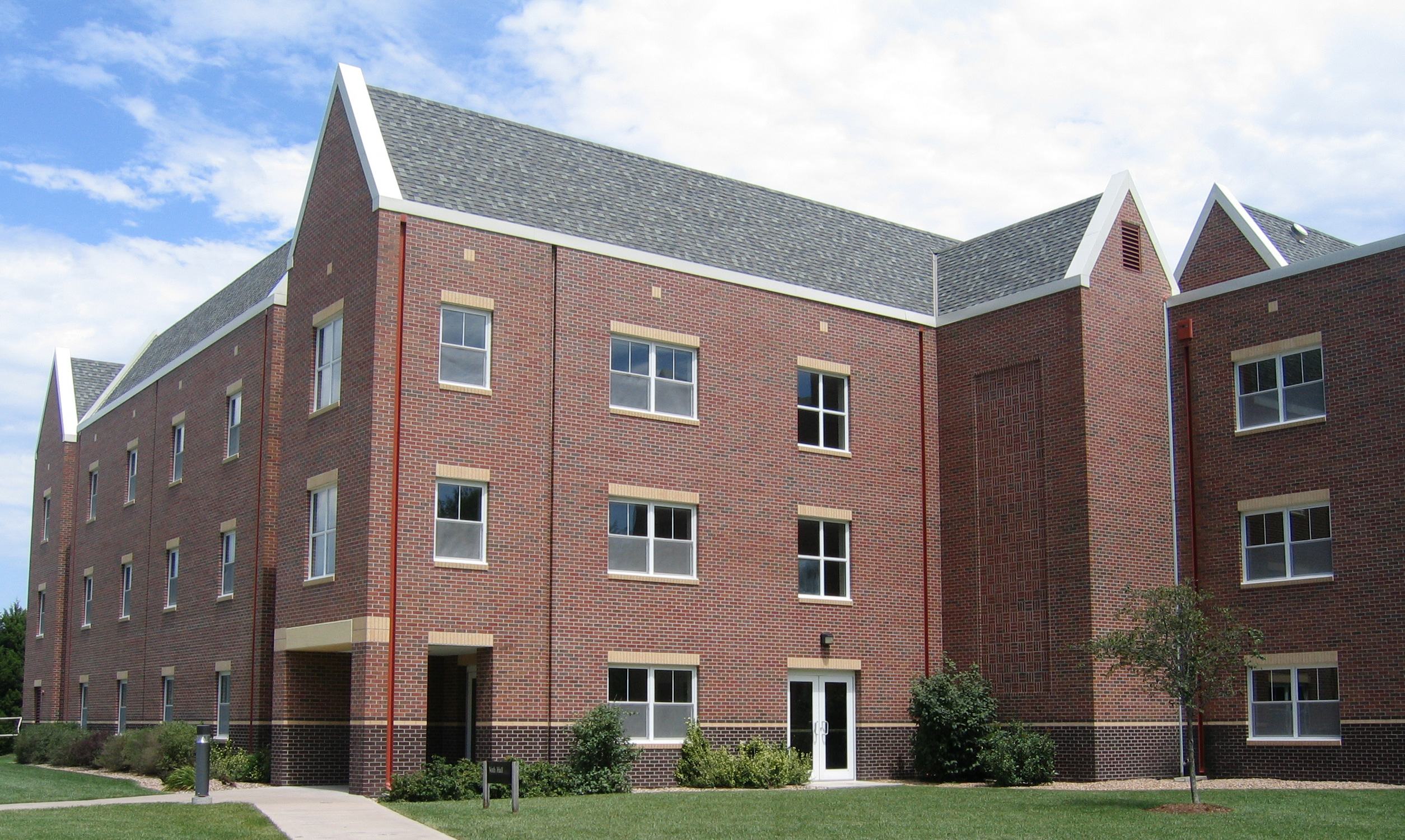 Voth Hall, Bethel College, North Newton Kansas. Student housing.